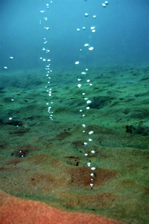 Volcanic bubbles leaking